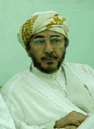 image of sami angawi